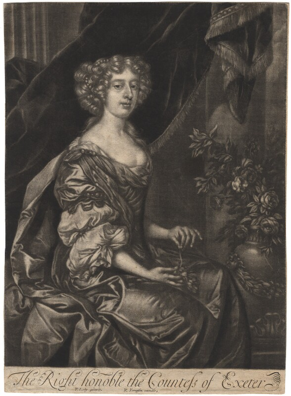 Mezzotint portrait of Anne, wife of John Cecil, 5th Earl of Exeter, entitled 'The Right Hono'ble the Countess of Exeter'